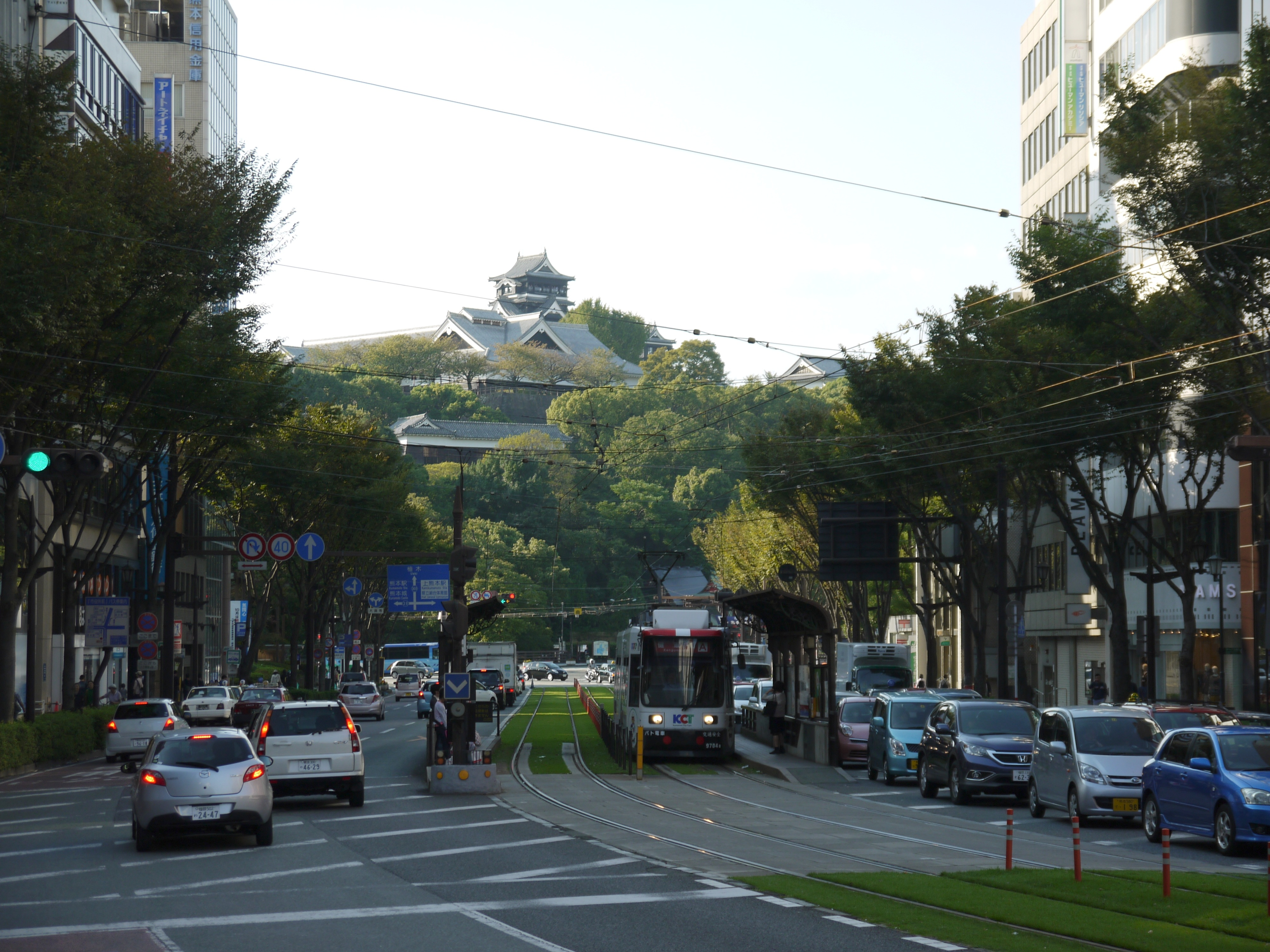 Japanese Foxtail millet 01).